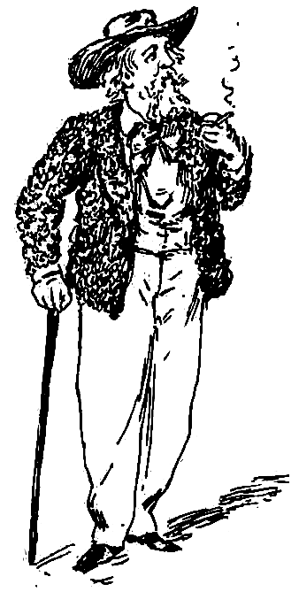 Caricature of writer Tomás de Melo (Thomaz de Mello) by Rafael Bordalo Pinheiro.